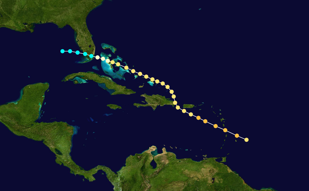 1891 Atlantic hurricane 3 track.png track. Uses the color scheme from the Saffir-Simpson Hurricane Scale.